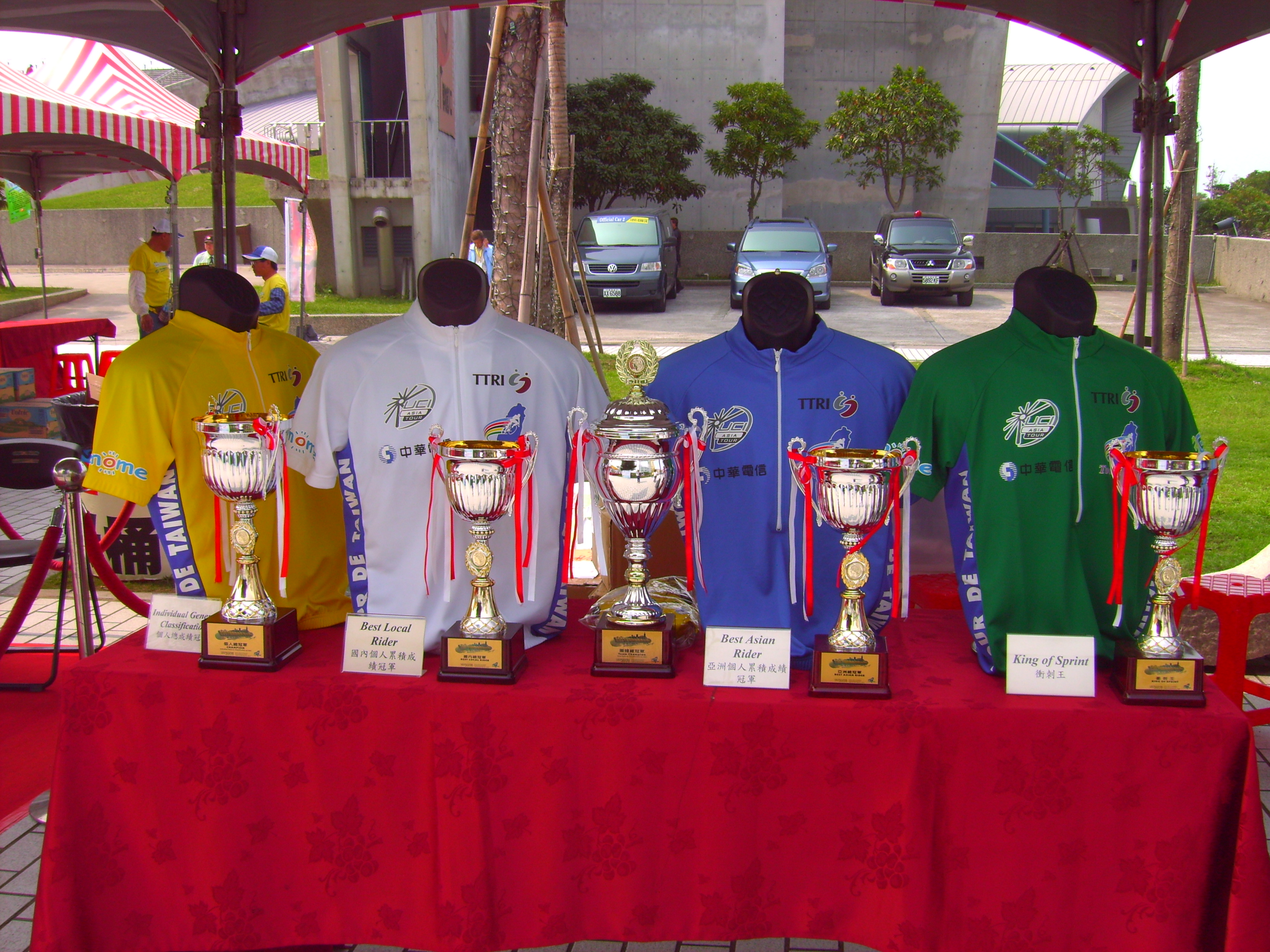 Tour de Taiwan awards, besides every group champion jerseys, it includes group champion (center).